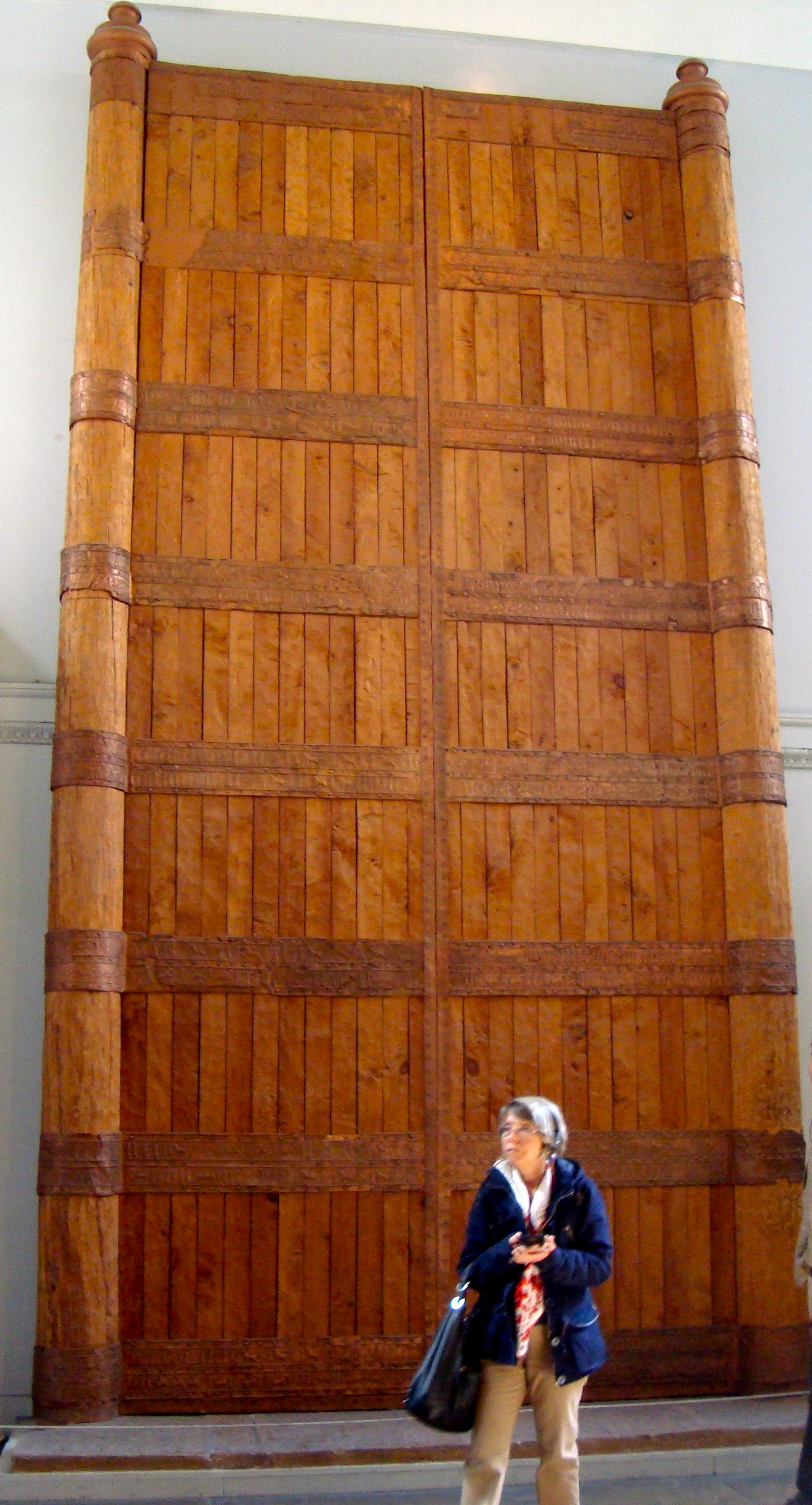 Balawat Gates: British Museum. Photo taken by Sara Fitzpatrick